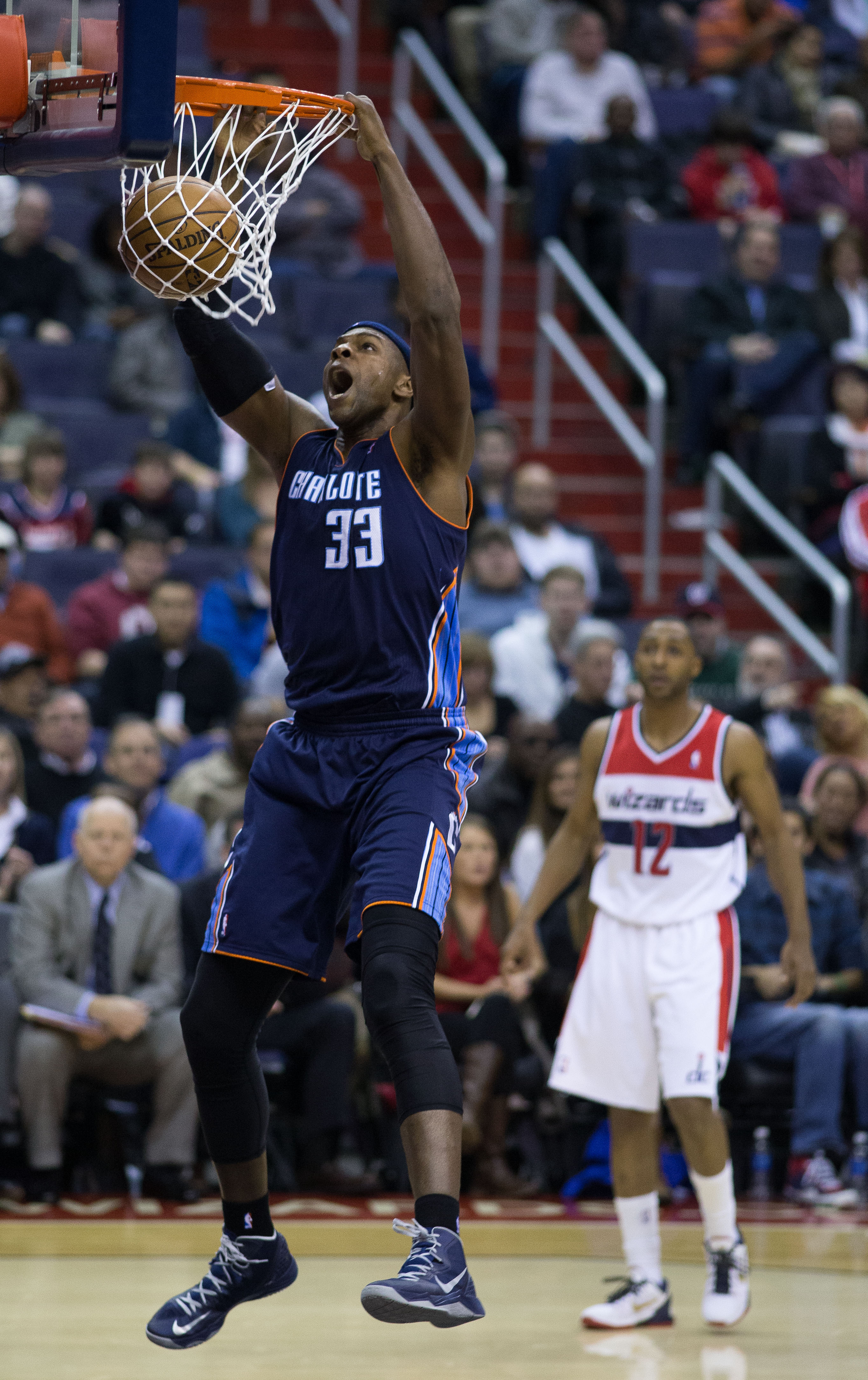 Charlotte Bobcats at Washington Wizards March 9, 2013